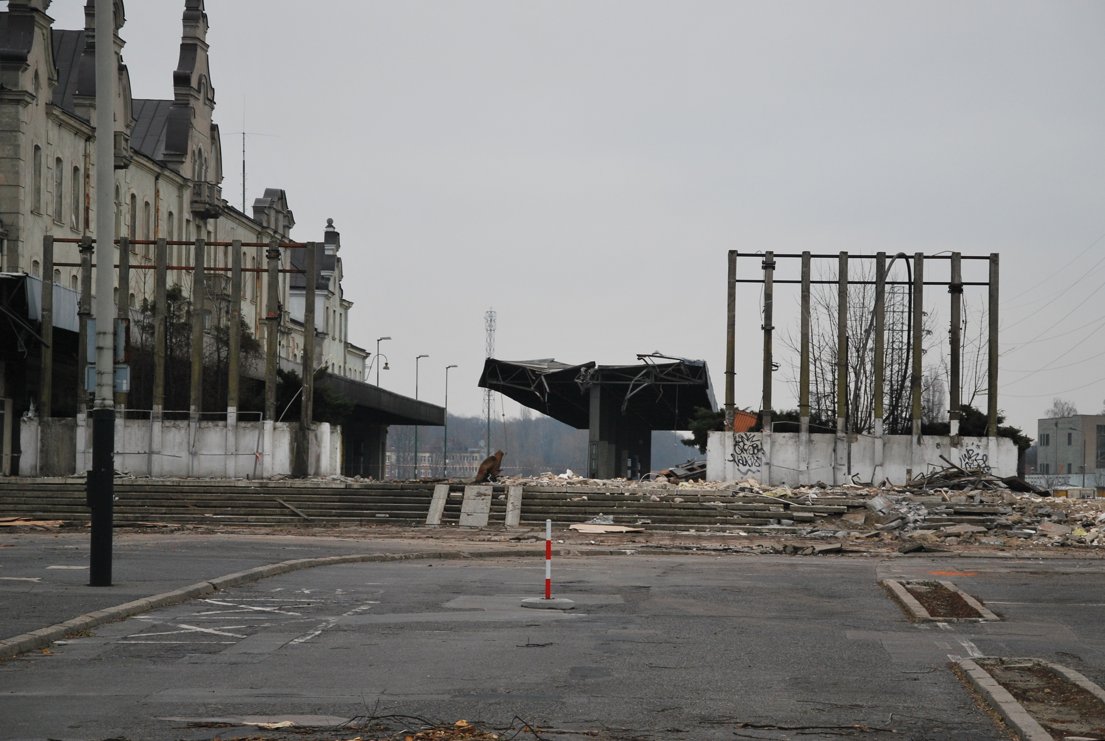 Former platforms, Łódź Fabryczna Station, March 2012